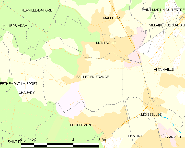 Map of French municipality Baillet-en-France